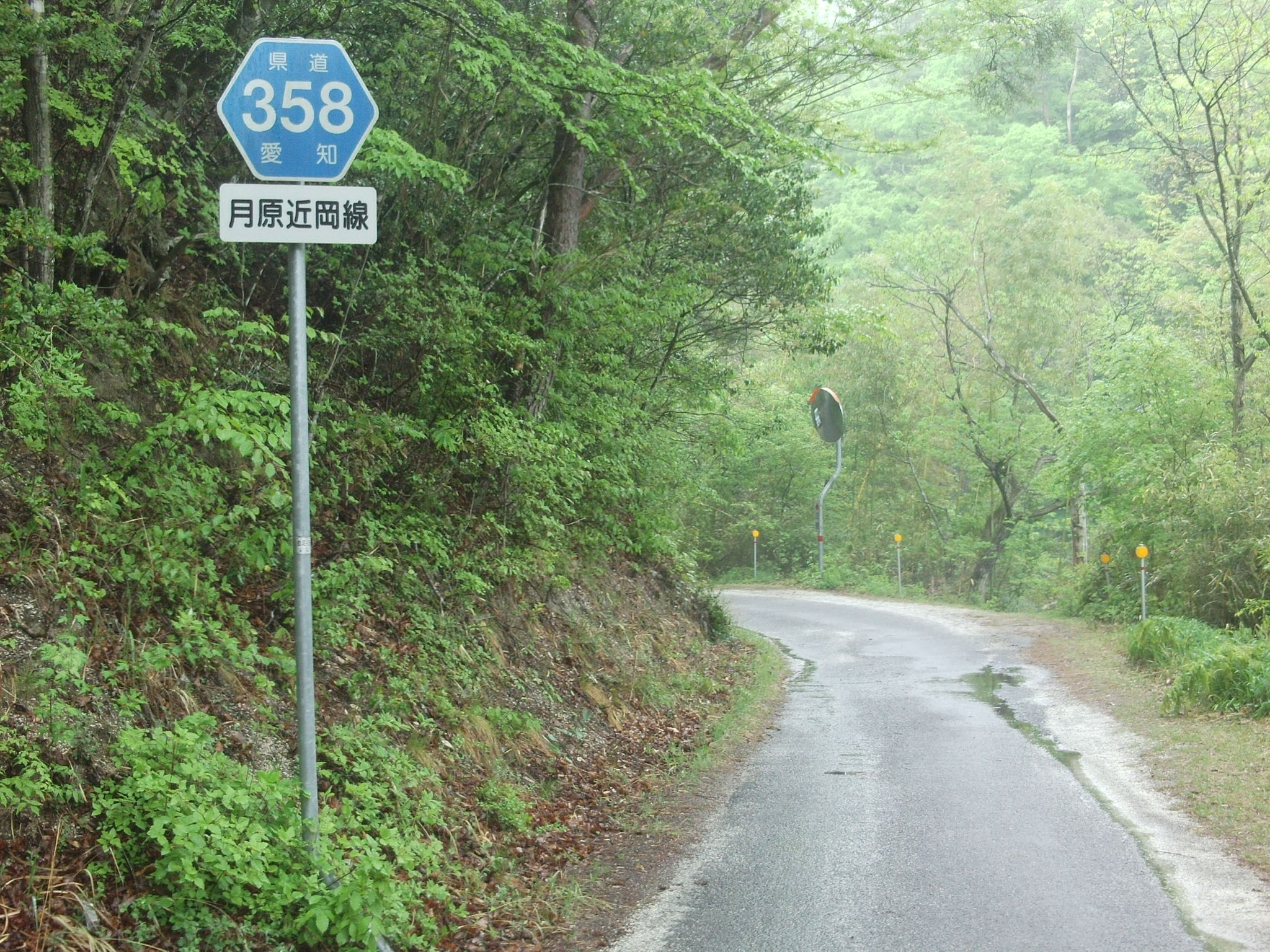 Aichi prefectural road No.358 in Wachibaracho, Toyota, Aichi.